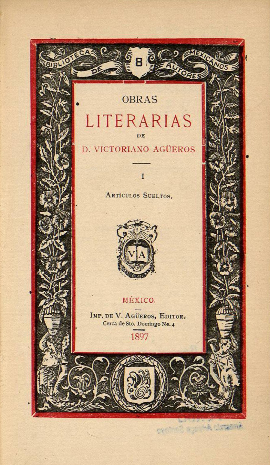 Bookcover Complete Works of D. Victoriano Agüeros edited in 1872.